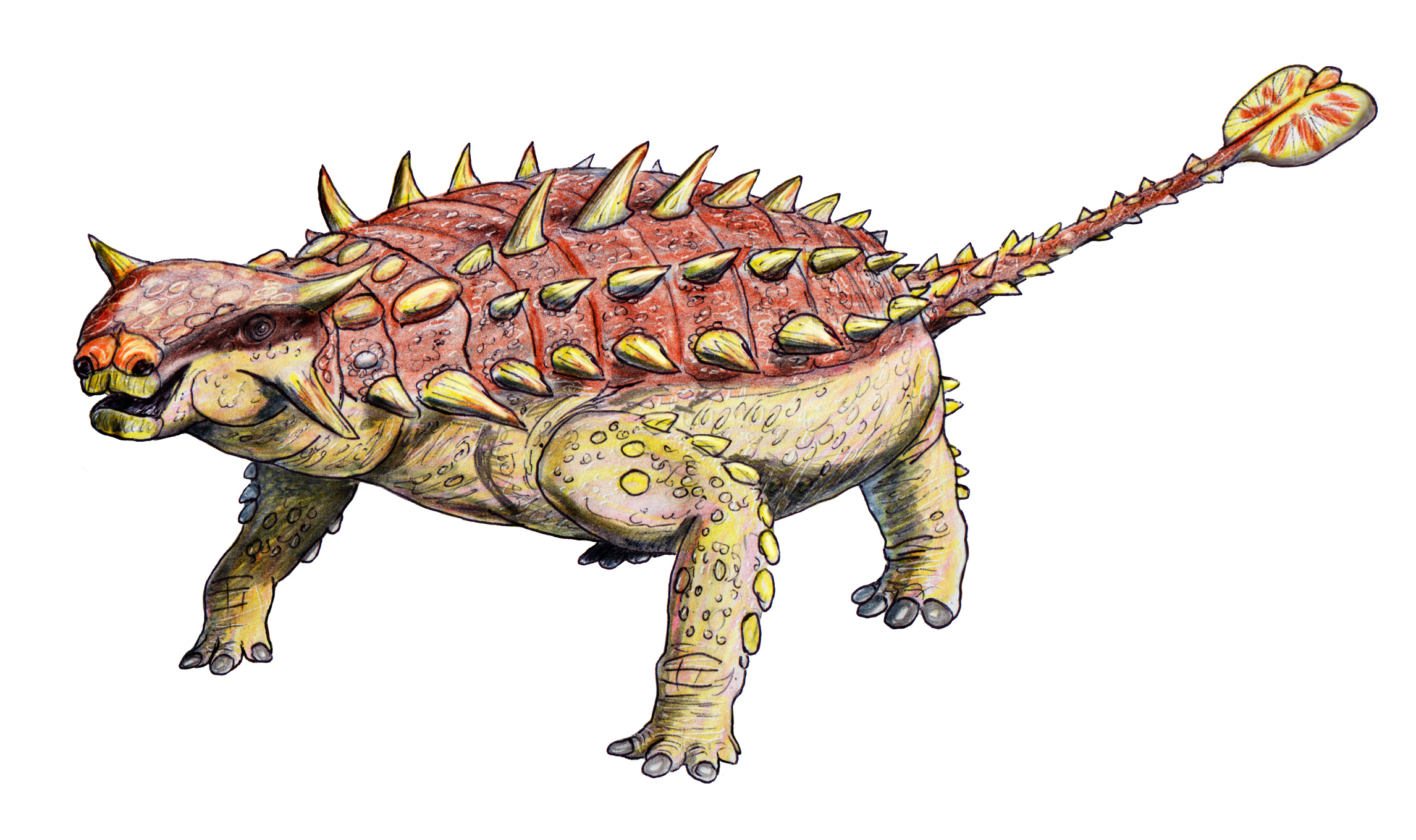 Pinacosaurus grangeri, ankylosaur from Late Cretaceous of Mongolia and China